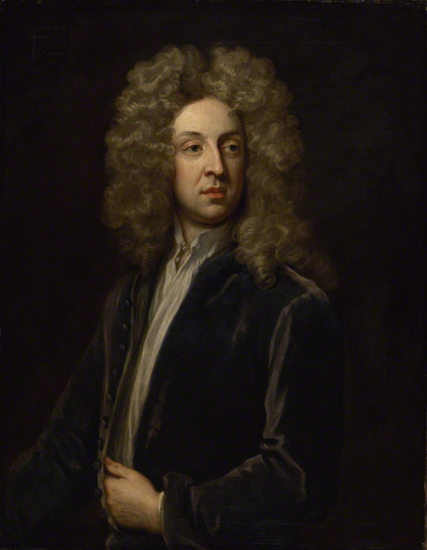 Portrait of Arthur Maynwaring (1668–1712), English politician.